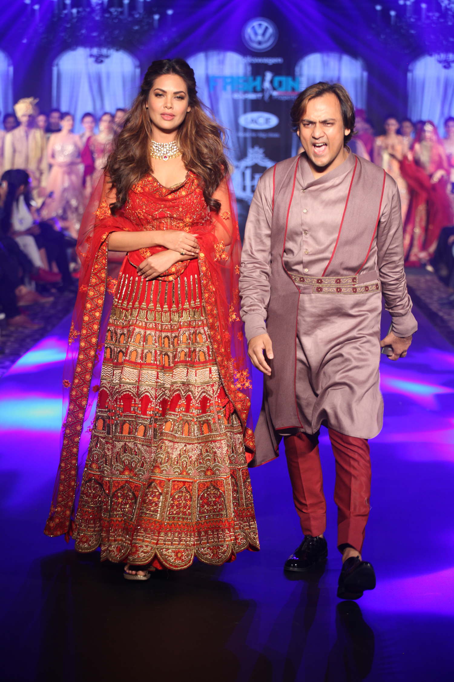 Esha Gupta as Show Stopper for Lalit Dalmia